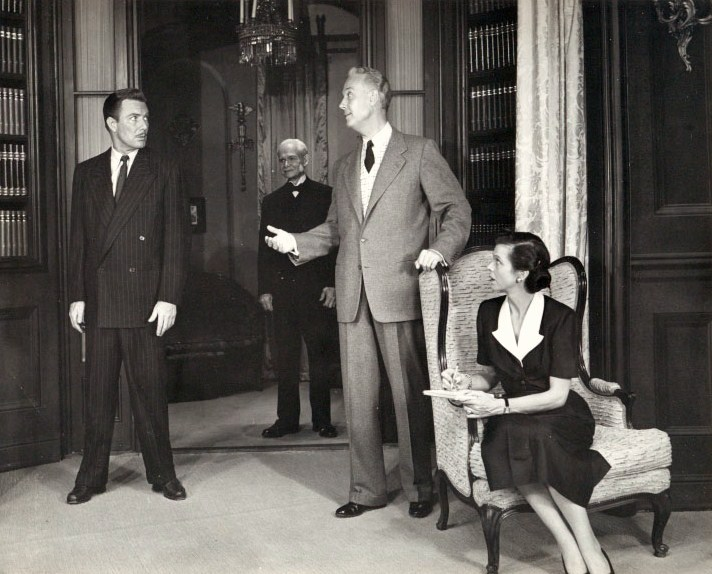 L. to R. : Tom Helmore, David Perkins, Paul McGrath & Dorothy Adams in the Louis Verneuil's play Love and Let Love, Broadway, Plymouth Theatre - publicity still (cropped)